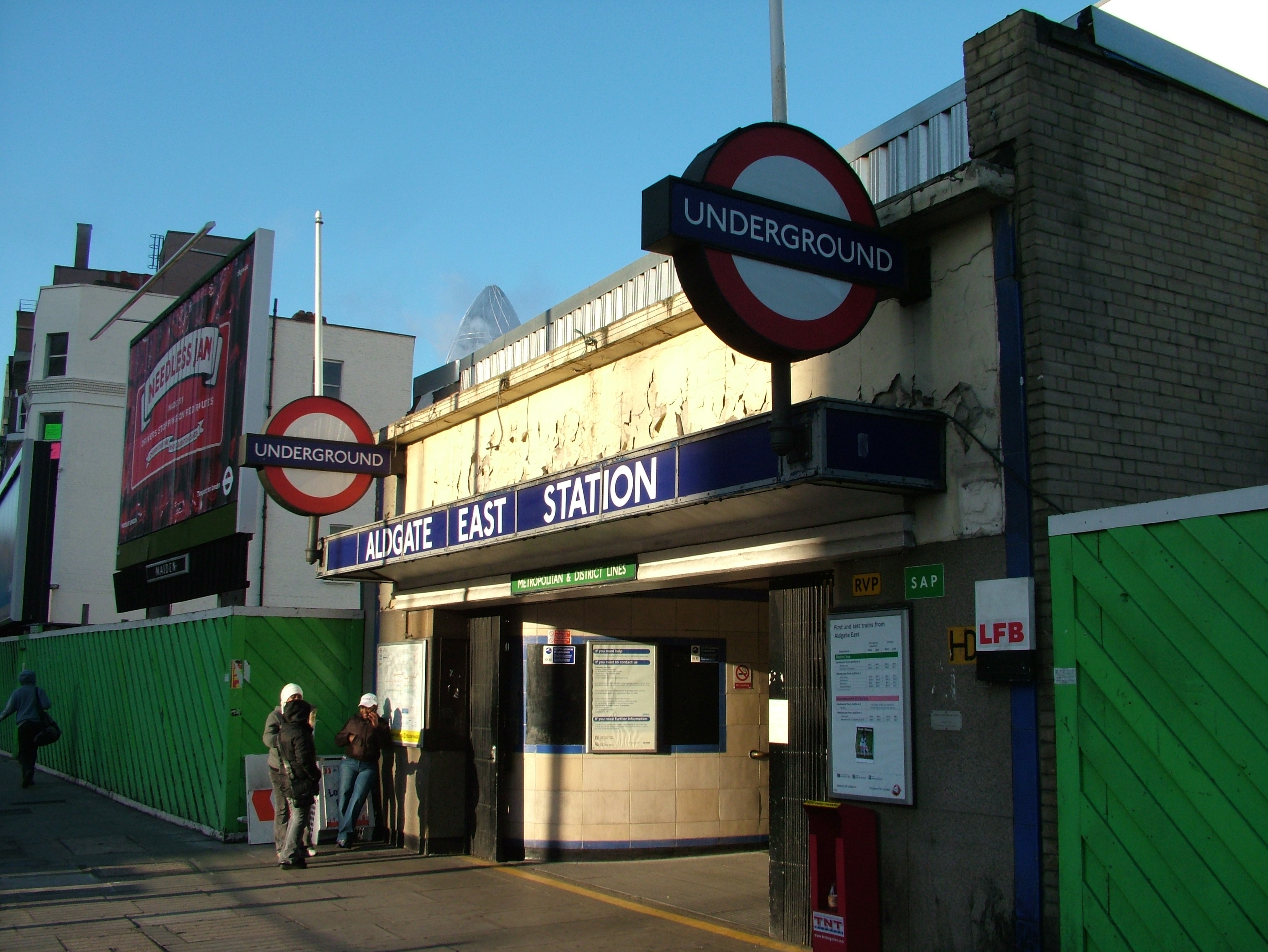 Transport for London the Station Aldgate East Selber fotografiert am 19.11.2005